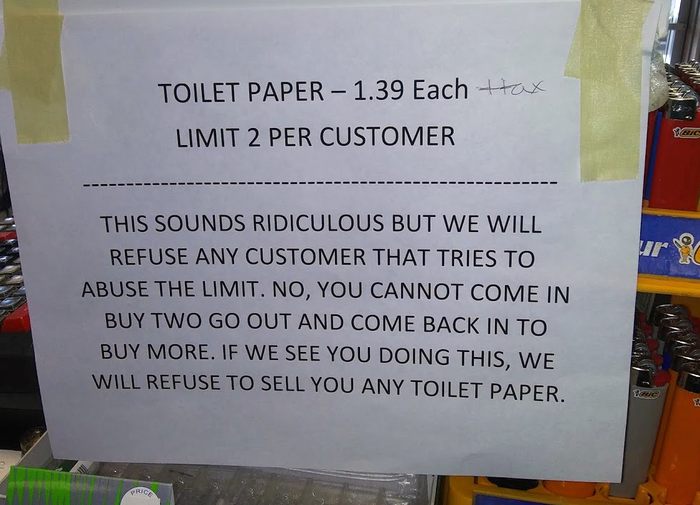 Sign outlining toilet-paper sales policy in a somewhat conversational tone during the COVID-19 pandemic at a convenience store in Red Hook, NY, USA. A clerk told me that people actually have been doing this, hence the sign.